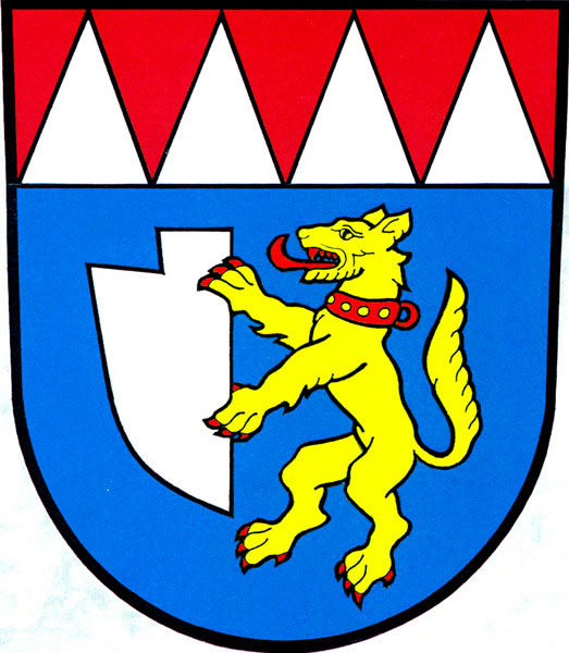 Municipal coat of arms of Petrovice village, Bruntál District, Czech Republic.